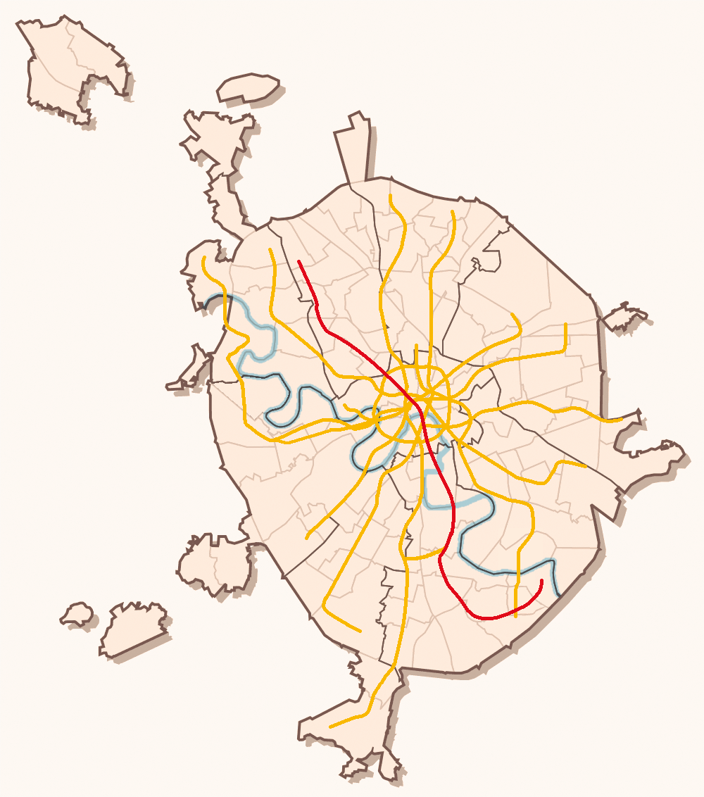 Map of Zamoskvoretskaya Line of Moscow Metro on Moscow map